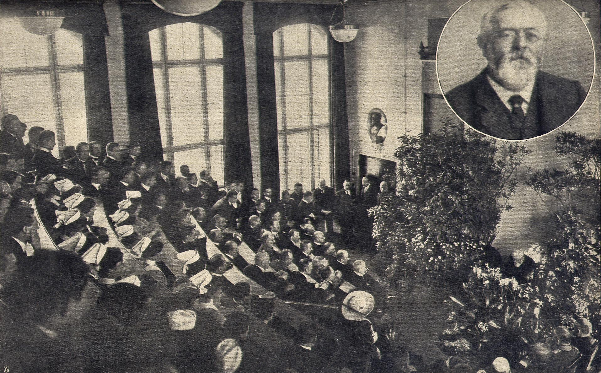 The german paediatrician and founder of the medical science of Pediatrics, Prof. Dr. Otto Heubner, at his final lecture at the Charité, Berlin, February 1913